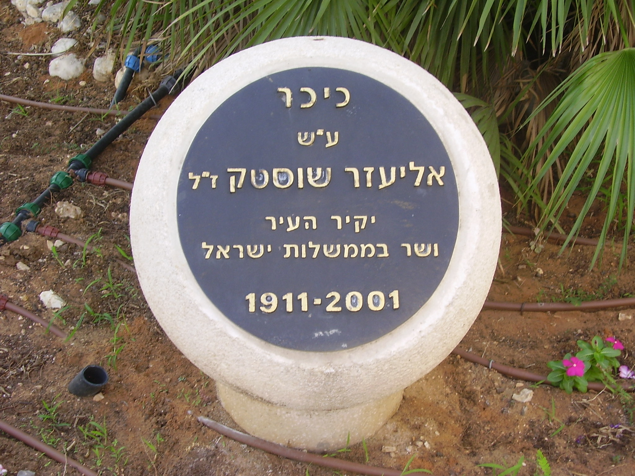 shostak square in ramat gan shostak was health minister in Israel's government